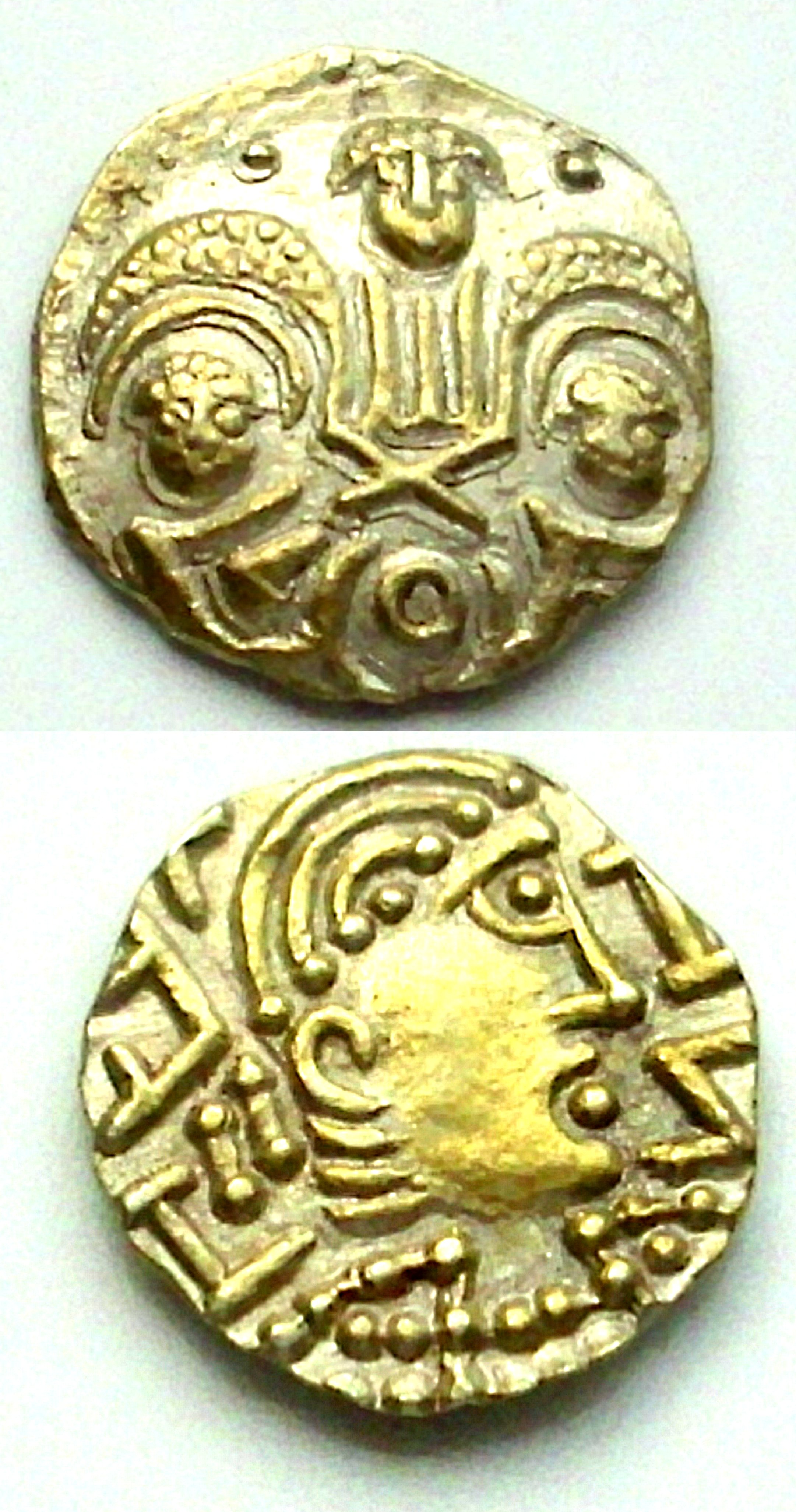 A gold Anglo-Saxon thrymsa, mint and issuer unknown probably dating to c.655 - 675. Obverse description: Bust right wearing a pearl diadem and cuirass indicated by dots. Reverse description: Stylized figure of victory enfolding the heads of two small figures. North no:20 ( North 1994, p55).